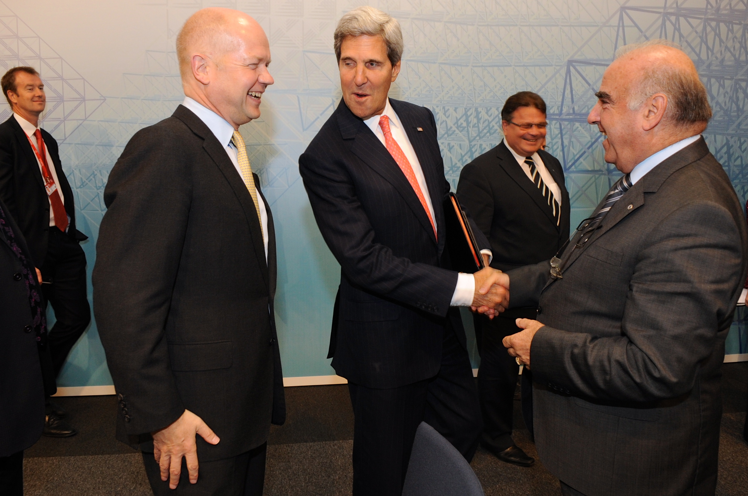 U.S. Secretary of State John Kerry greets British Foreign Secretary William Hague and Foreign Minister George Vella of Malta before the start of a meeting of EU Foreign Ministers in Vilnius, Lithuania, on September 7, 2013. [State Department photo/ Public Domain]